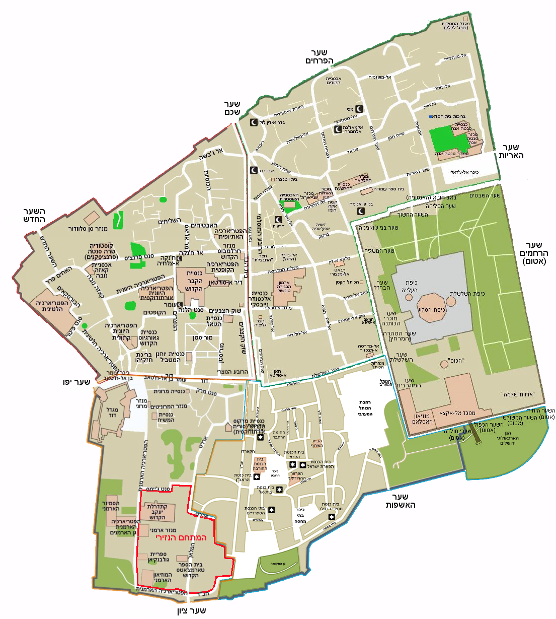 Map of Jerusalem - the old city. The quarters: SE: , NE: , NW: , SW: , E